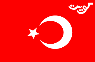 License: GFDL. Permission: 1 Flag of Kuwait, 1909-1915